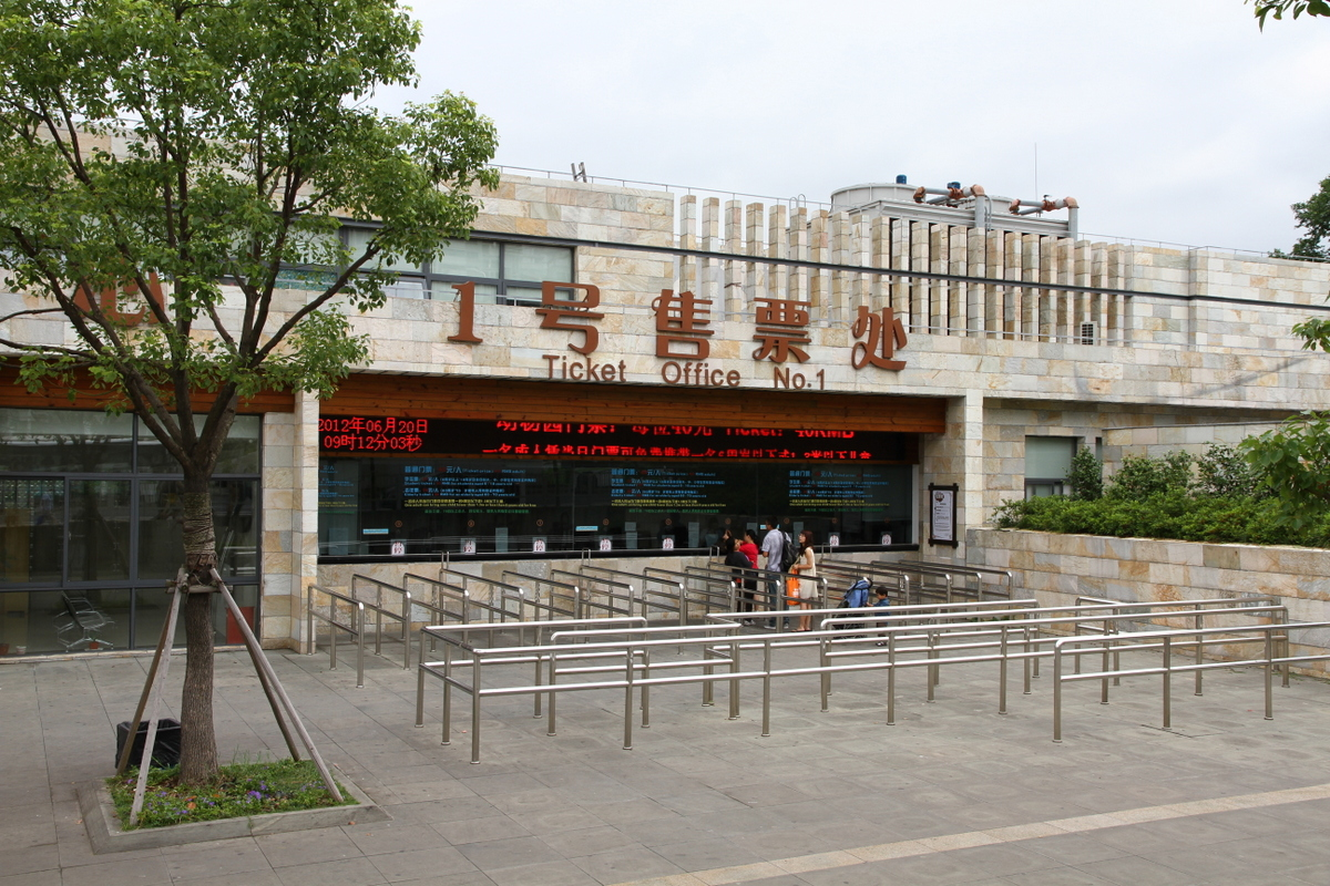 Shanghai Zoo ticket office No. 1